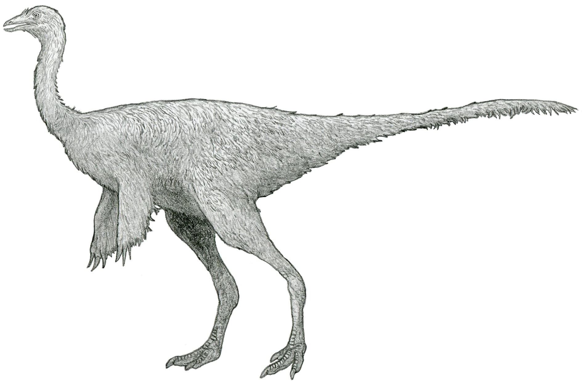 Reconstruction of Rativates evadens by Tom Parker.